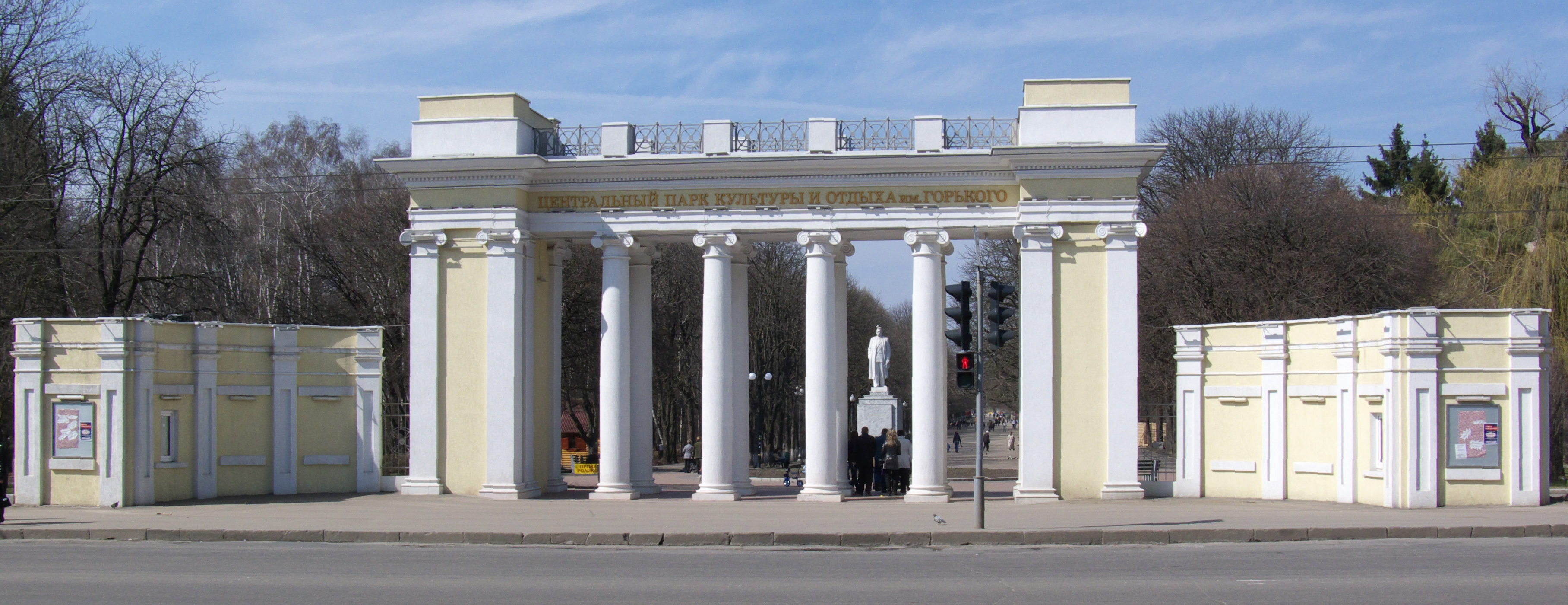 Gorky Park in Kharkov, Ukraine